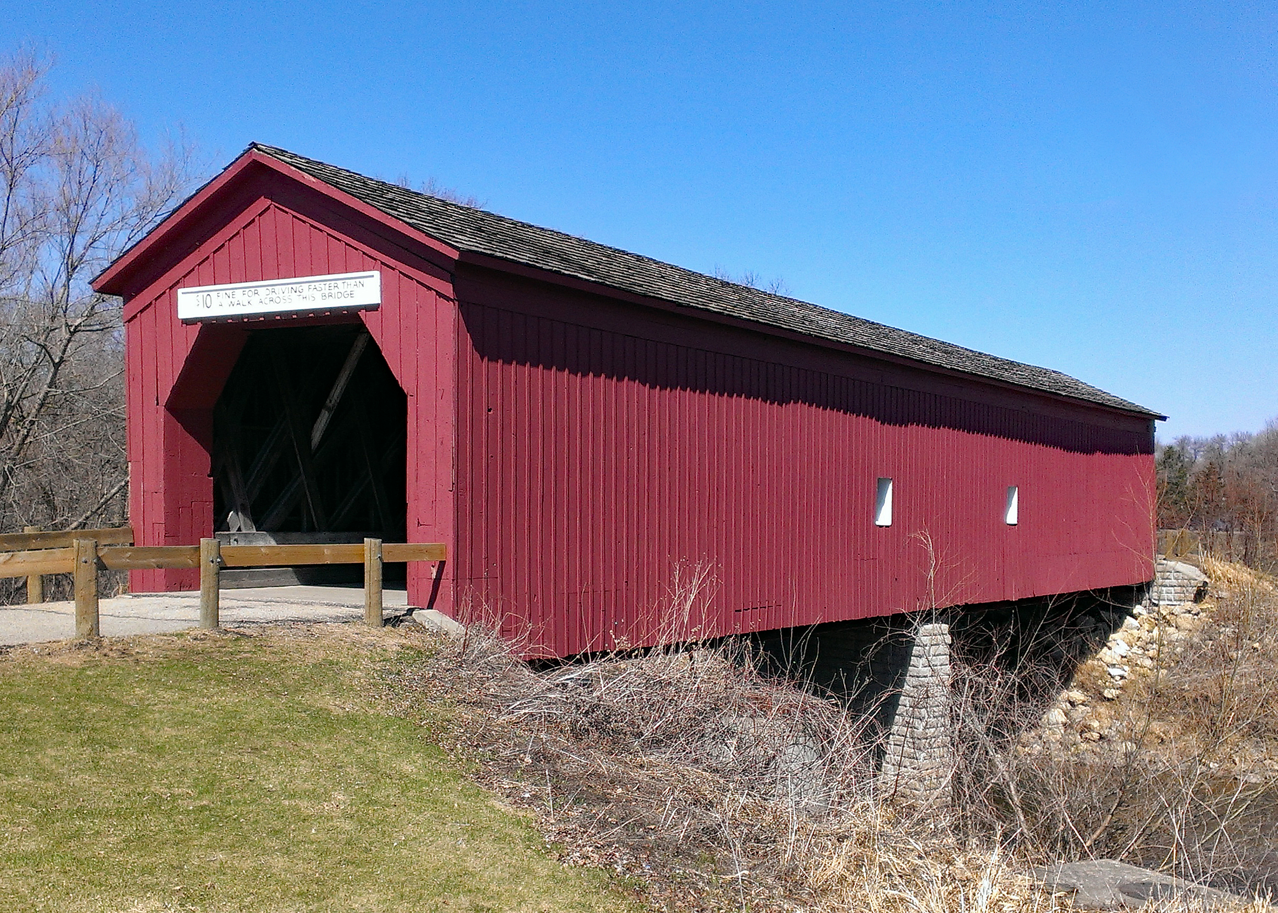 Zumbrota Covered Bridge, Zumbrota, Minnesota, USA. Viewed from the southeast.